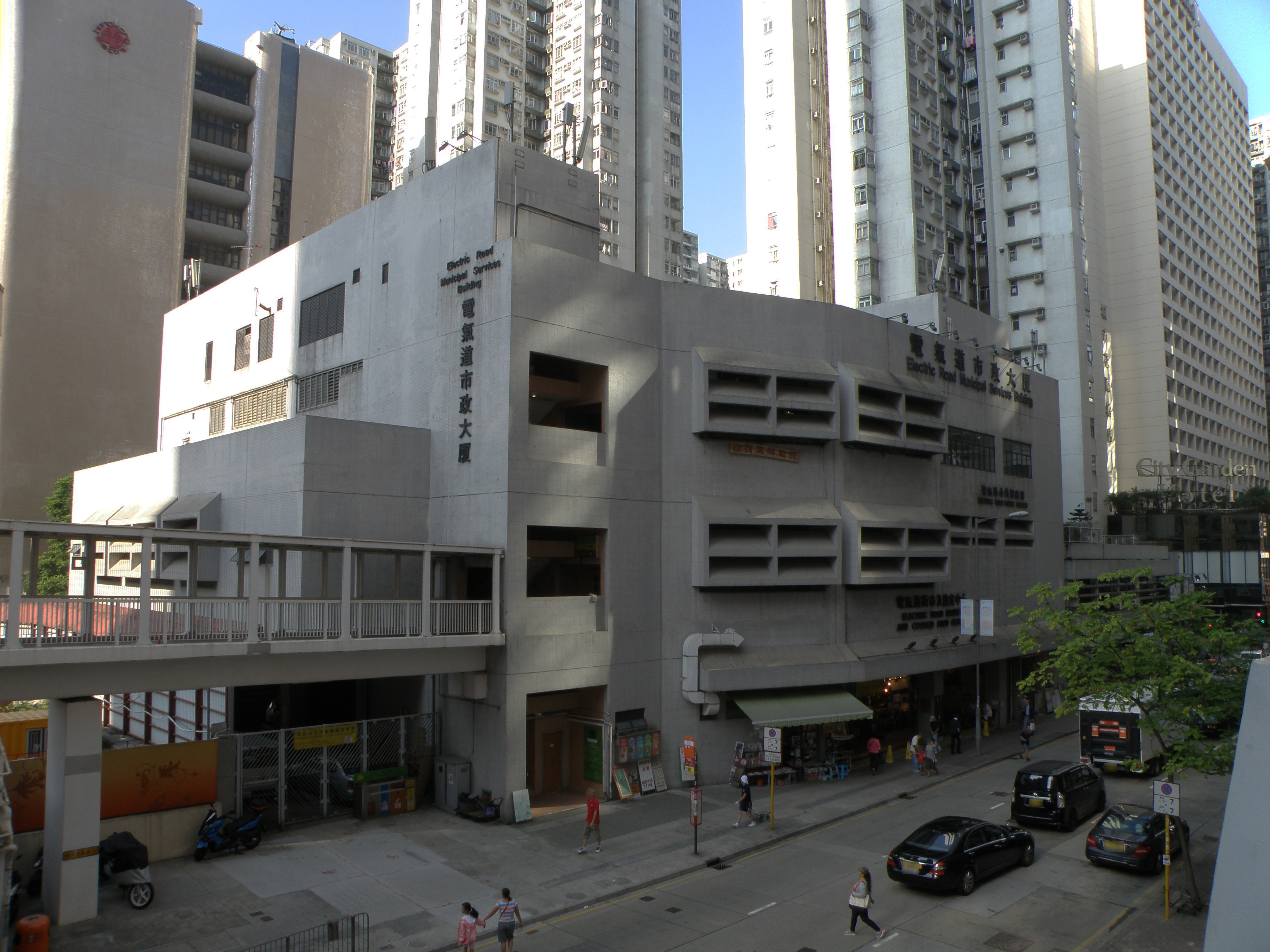 Electric Road Municipal Services Building in Fortress Hill, Hong Kong.